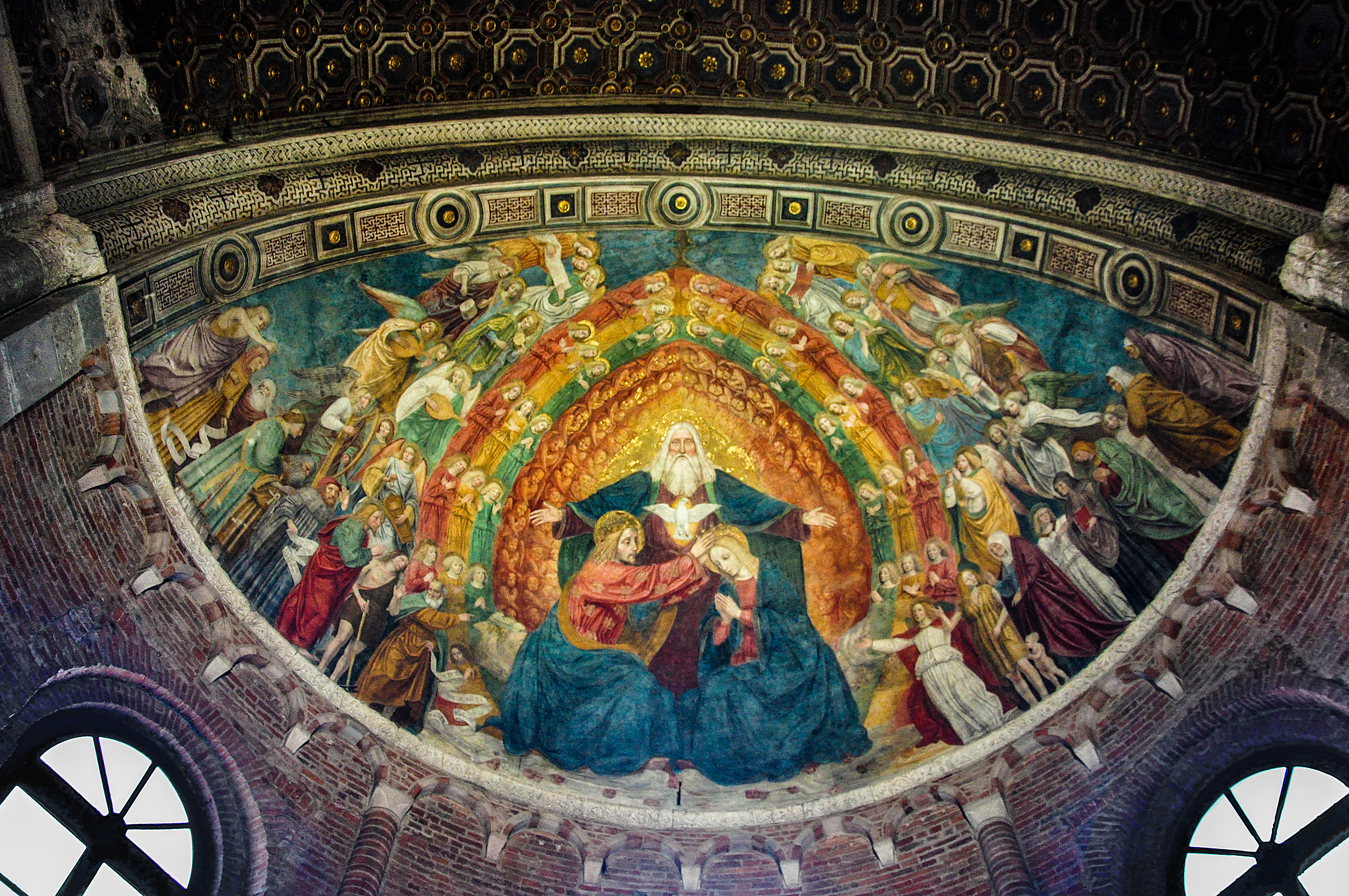 Bergognone's Coronation of Mary fresco in the apse of San Simpliciano Cathedral, Milan